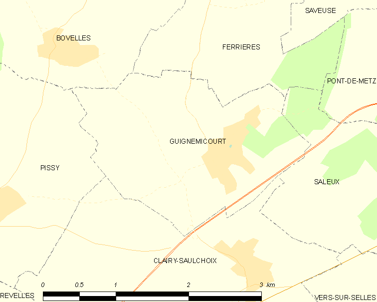 Map of French municipality Guignemicourt